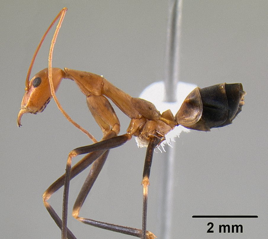 Profile view of ant Leptomyrmex darlingtoni specimen casent0012024.